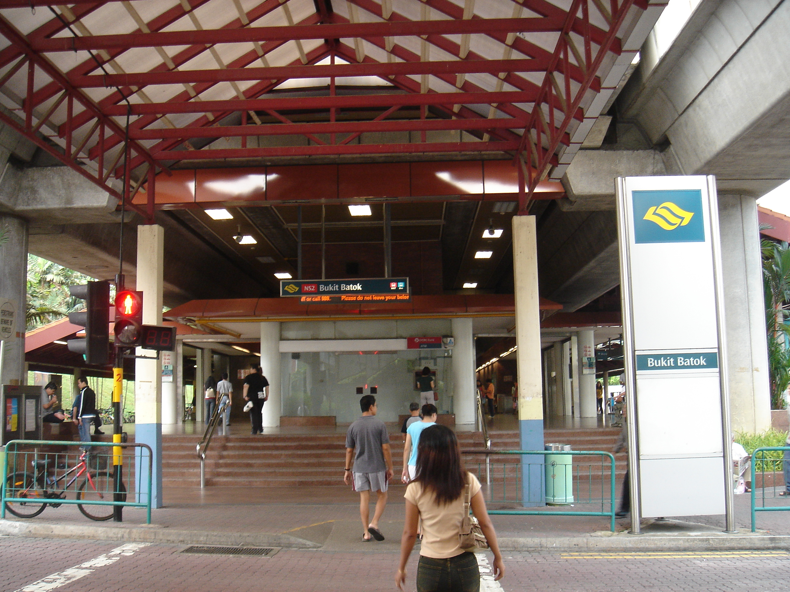 Entrance of Bukit Batok MRT Station, Bukit Batok, Singapore.